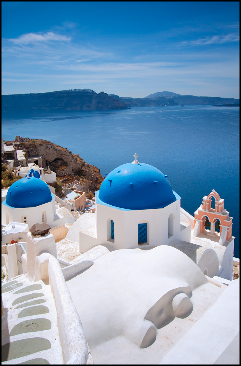 The typical Santorini view.